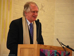 Noel Cobb speaking at Axel Jensen's funeral in Oddernes Kappell (Chapel), Kristiansand, Norway on February 21, 2003